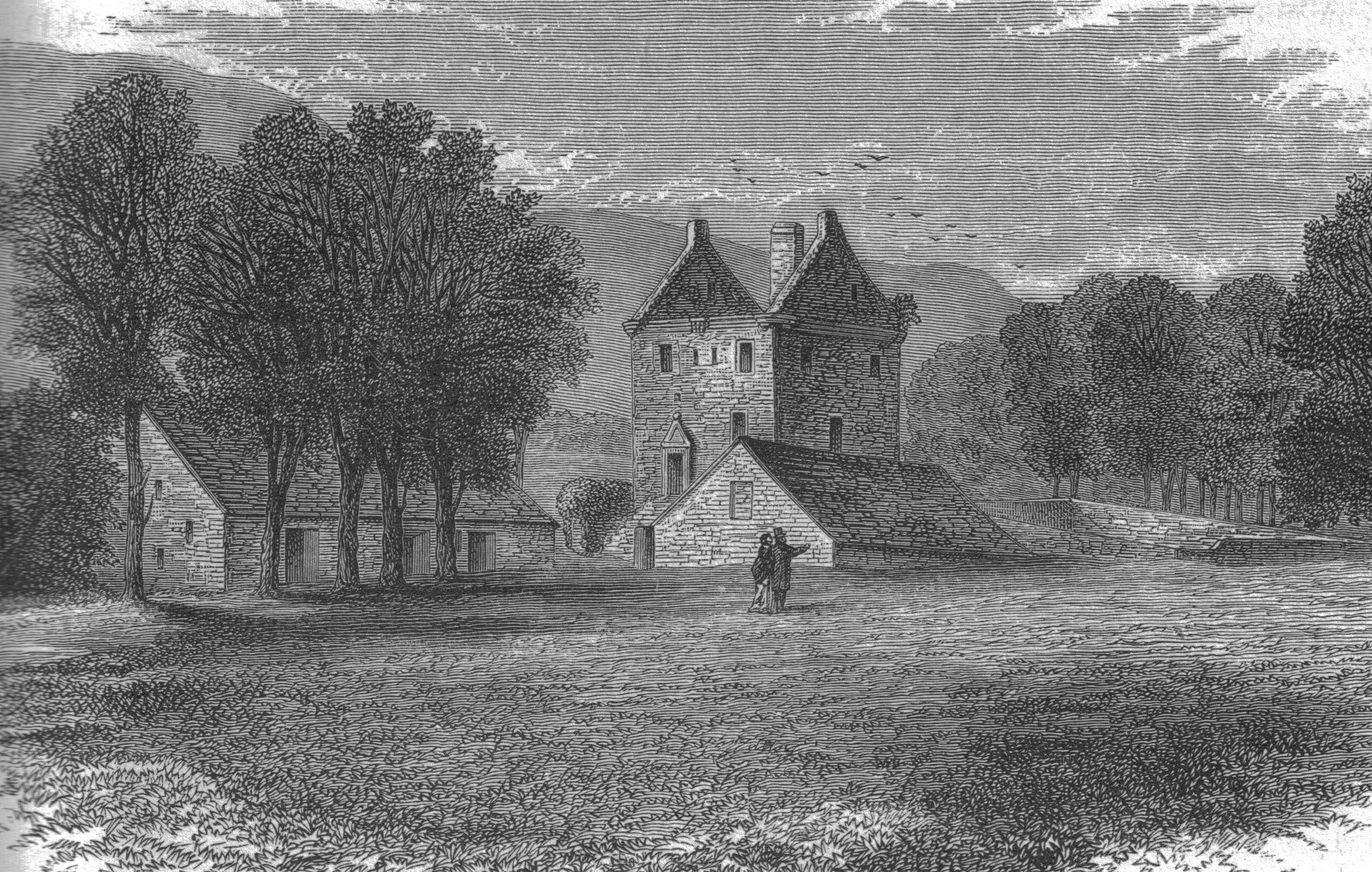 Ladyland Castle, Kilbirnie, North Ayrshire, Scotland. Castle now mostly demolished. This view is from the 1820s or earlier.